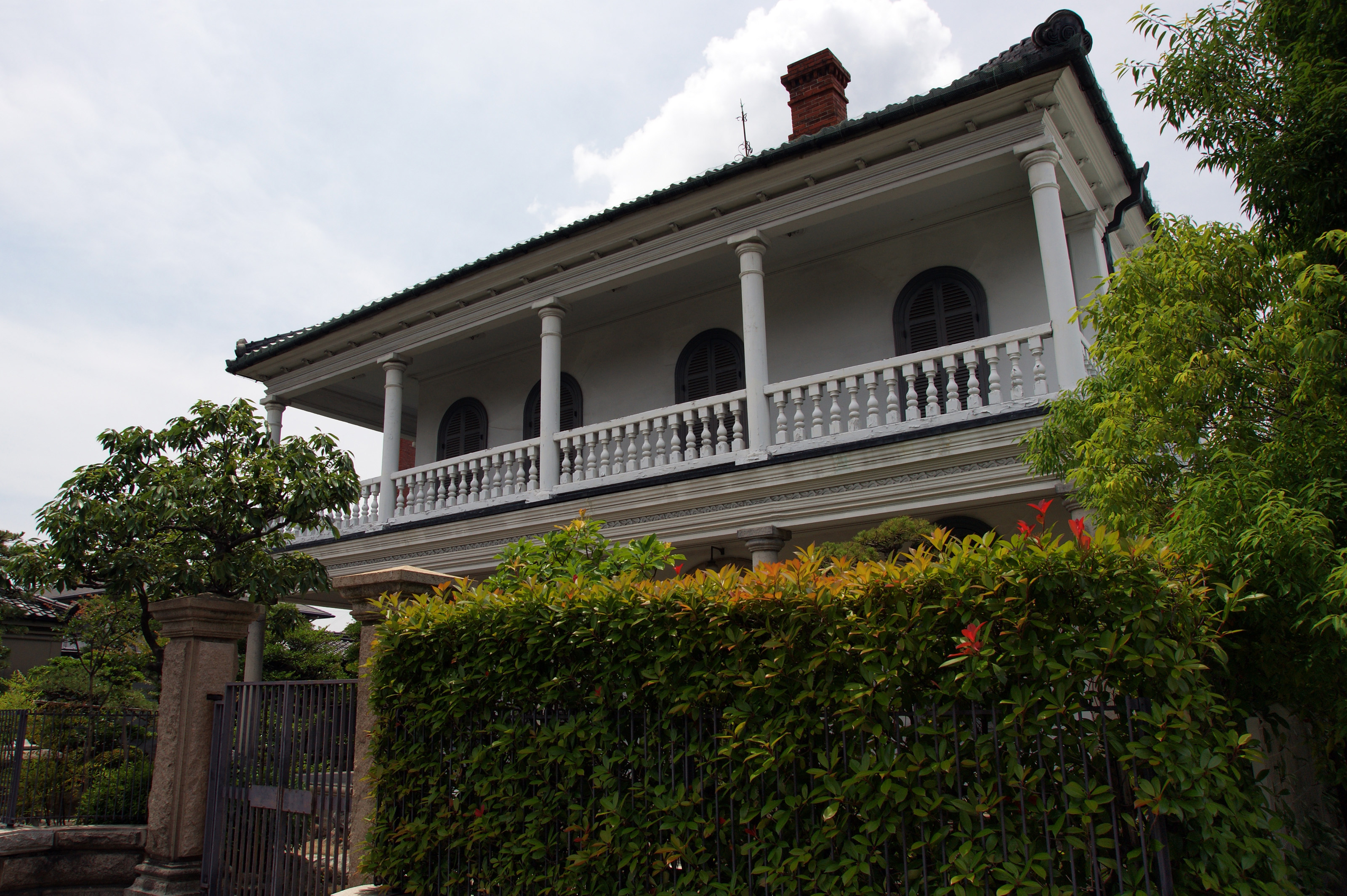 Old Tatsuuma Kijuro Residence in Nishinomiya, Hyogo prefecture, Japan